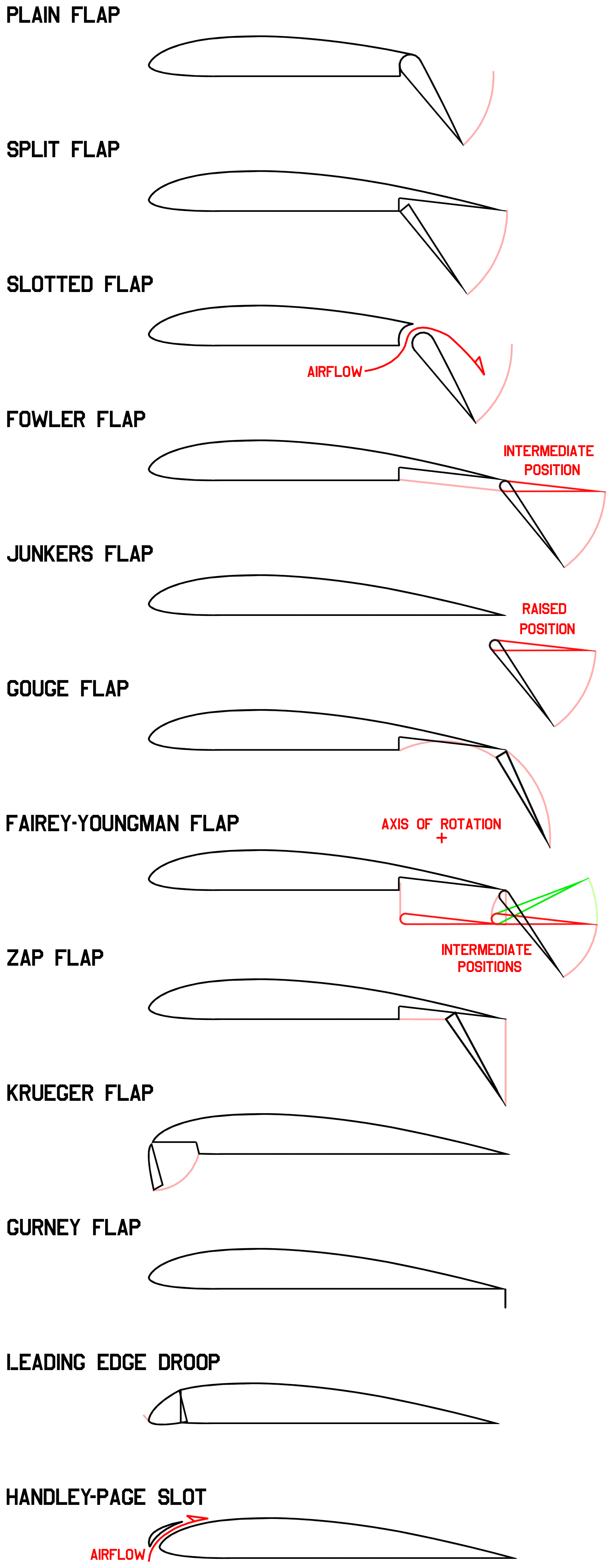 Airfoil lift improvement devices (flaps)